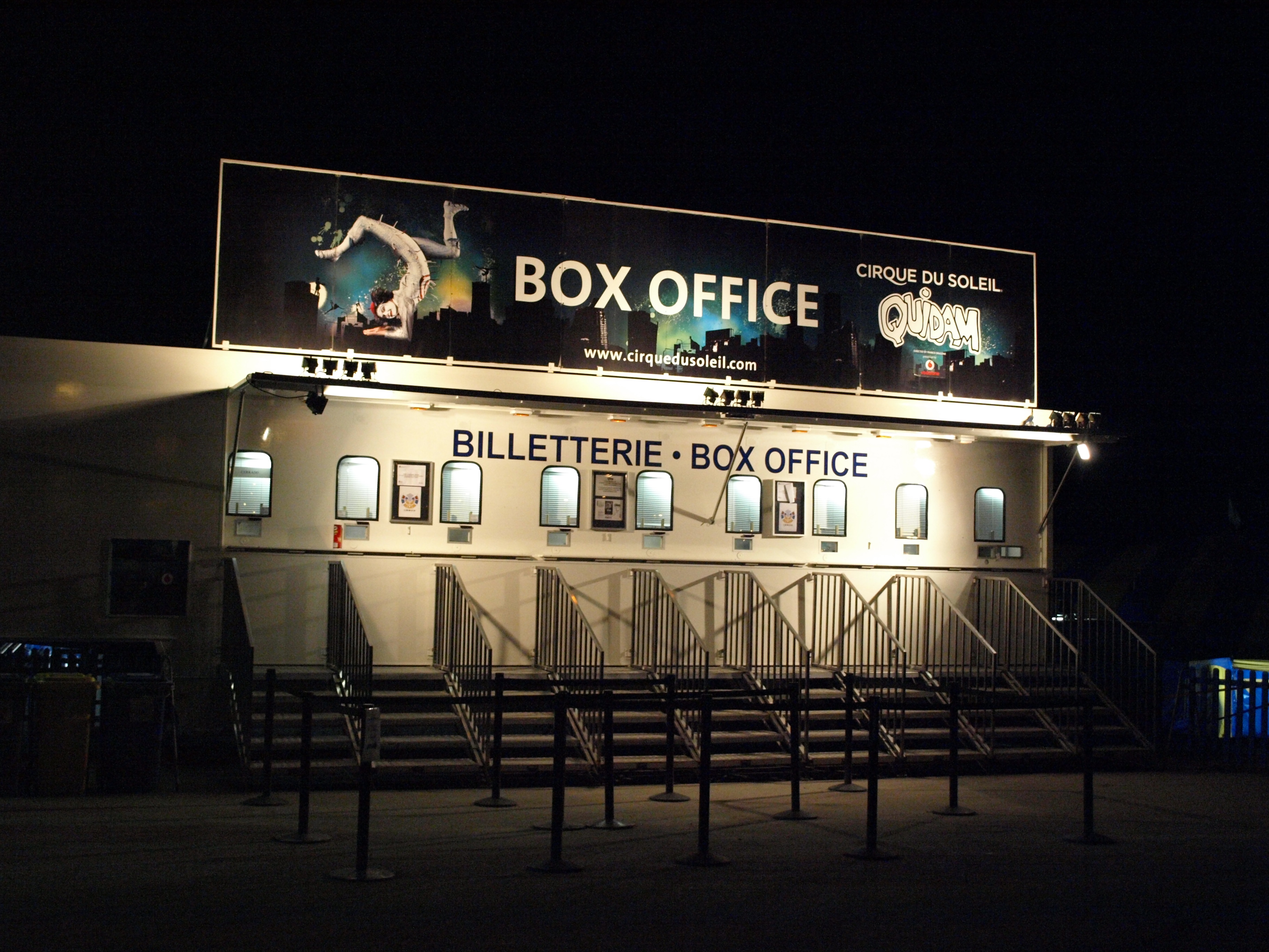 Quidam, Cirque du Soleil´s show Box Office